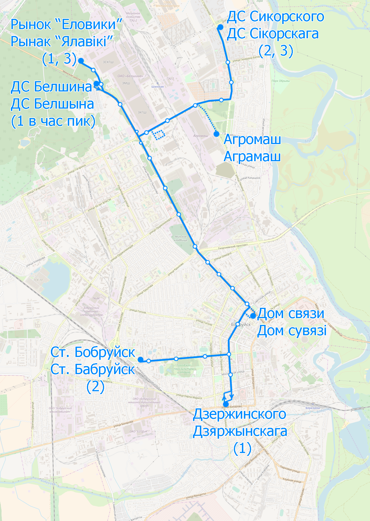 Trolleybus map of Babrujsk (Bobruysk), Belarus. Endstations are signed in Russian and Belarusian.